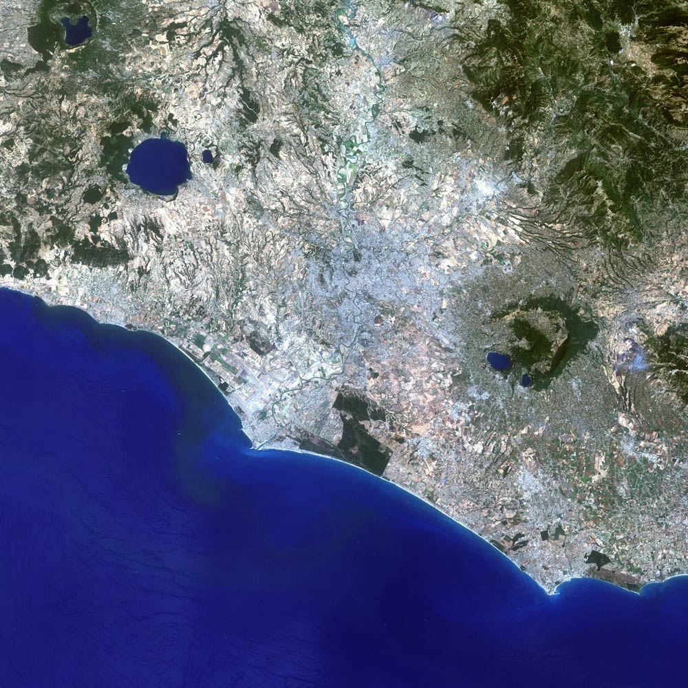 Rome, the Tiber and the sea. NASA satellite image.